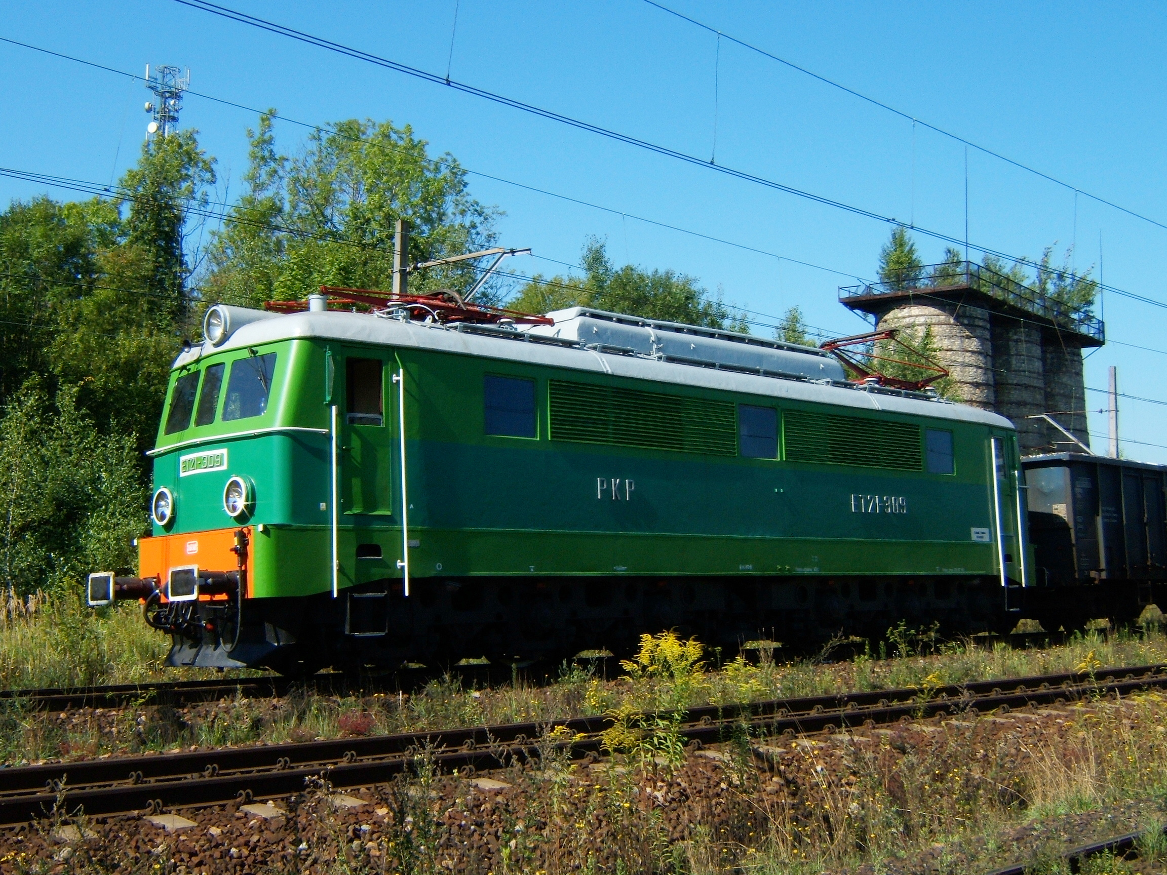 ET21 class locomotive, property of PKP, Nakło Śląskie, Poland.